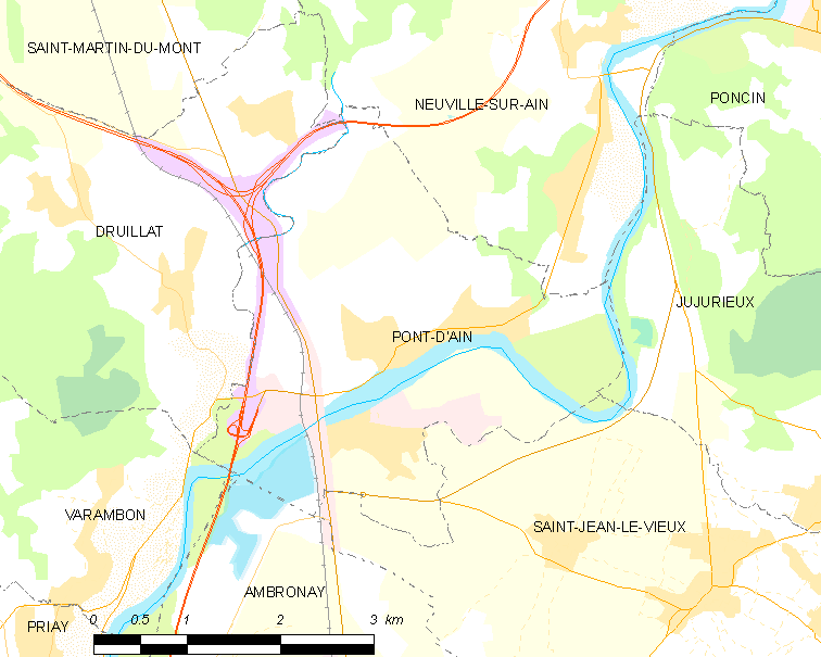 Map of French commune: Pont-d'Ain Map commune FR insee code 01304.png